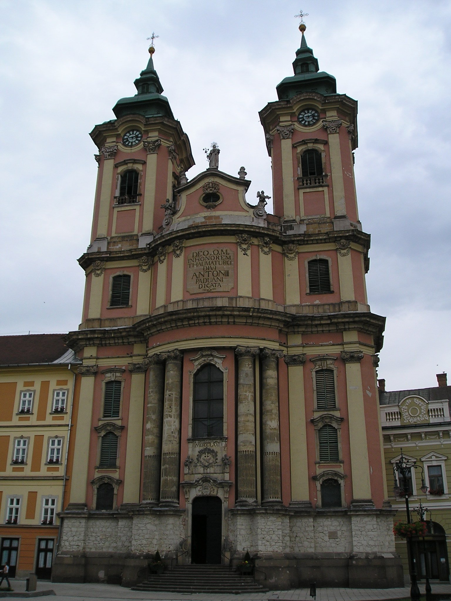 Eger, Hungary - Minorite church at the Dobó István tér